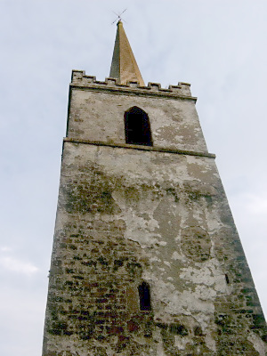 Tower of Ardbraccan Church, Co. Meath, Republic of Ireland.